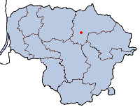 Situation of Panevėžys in Lithuania